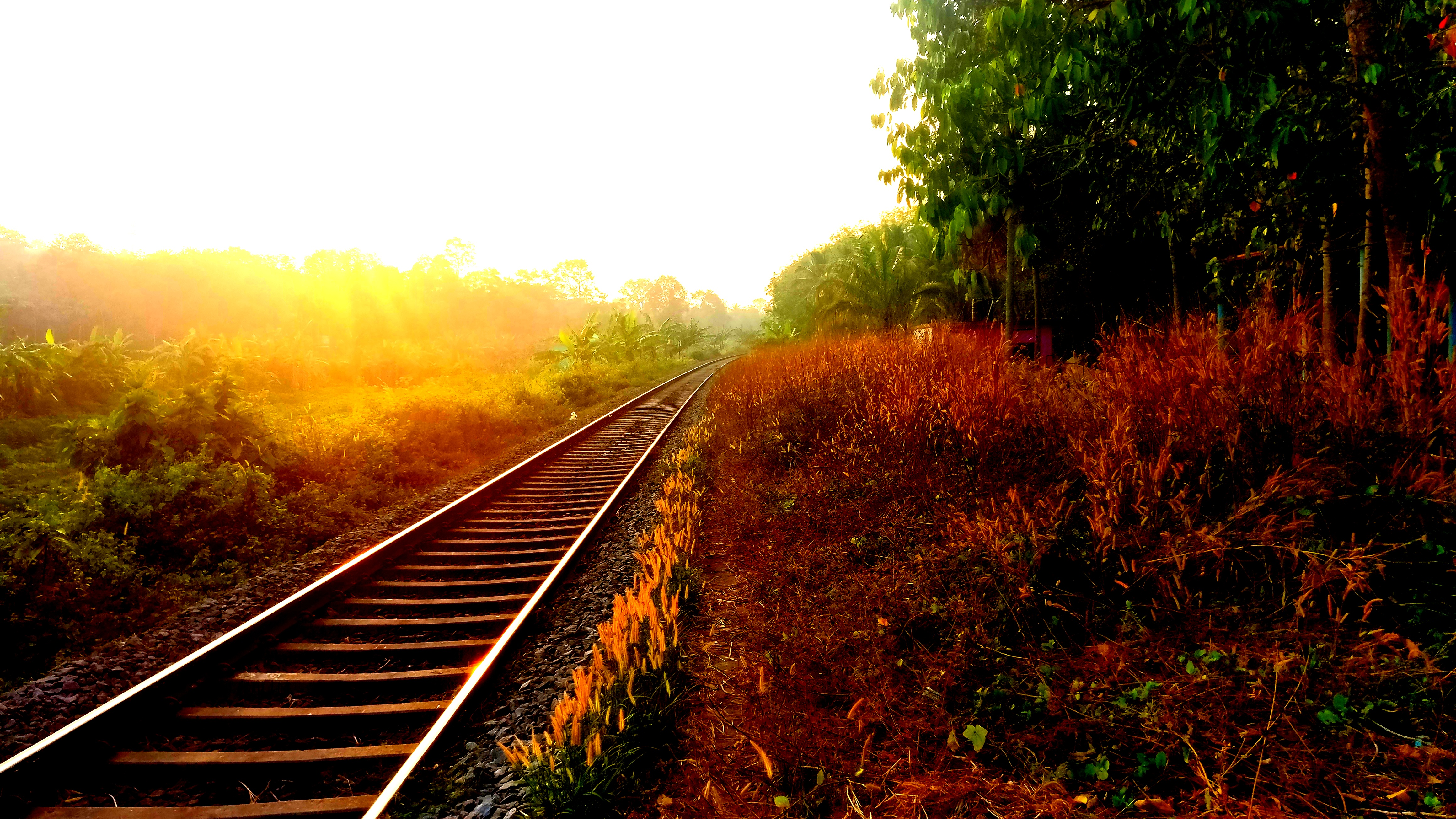 Kollam-Schengottai stretch is a part of Quilon-Madras railway line, opened in 1904.